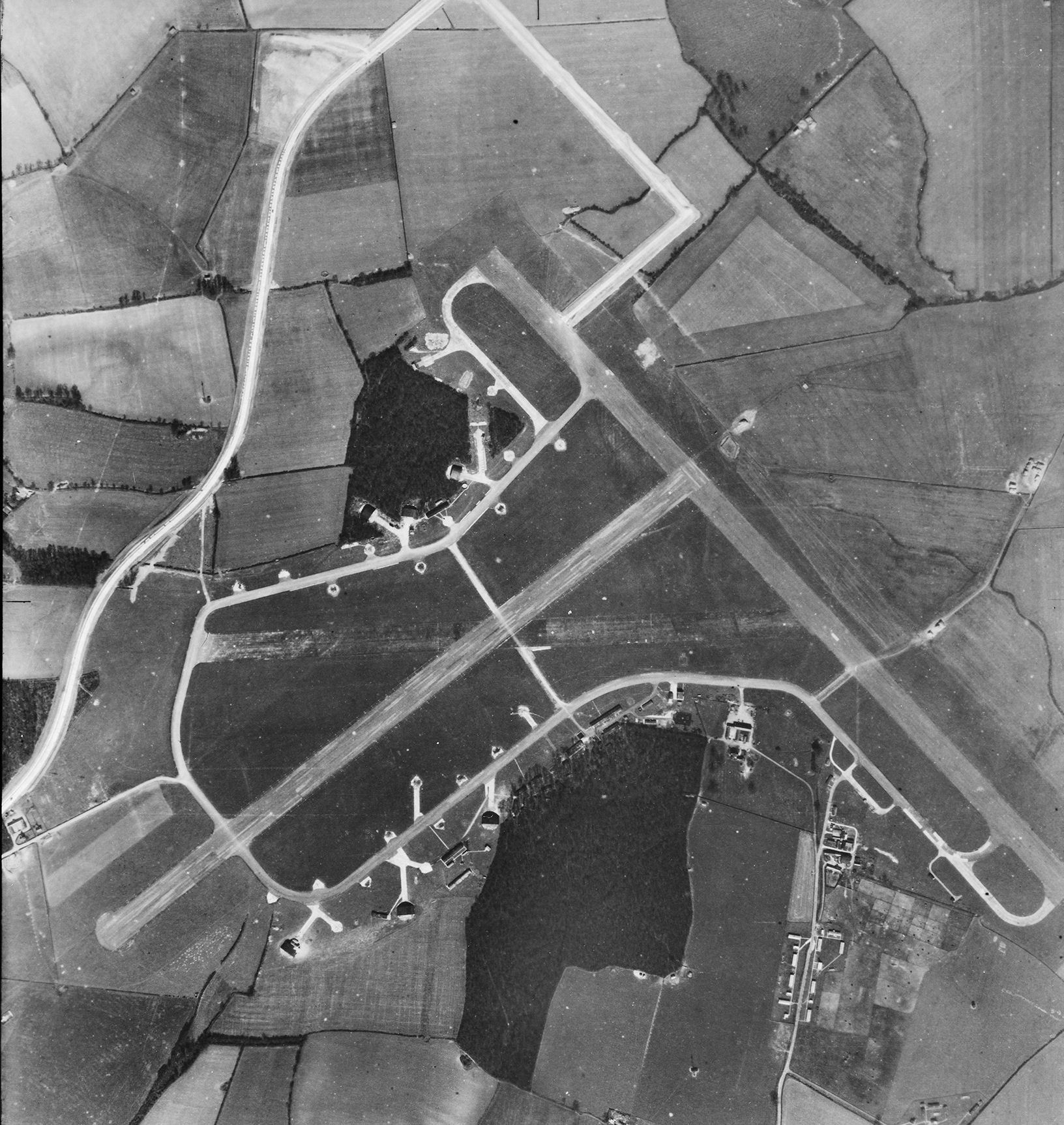 Aerial photograph of Milton Ernest (Twinwood Farm) airfield looking north, the control tower and airfield code are beneath the runway intersection, 28 March 1948. Photograph taken by No. 541 Squadron, sortie number RAF/CPE/UK/2546. English Heritage (RAF Photography).